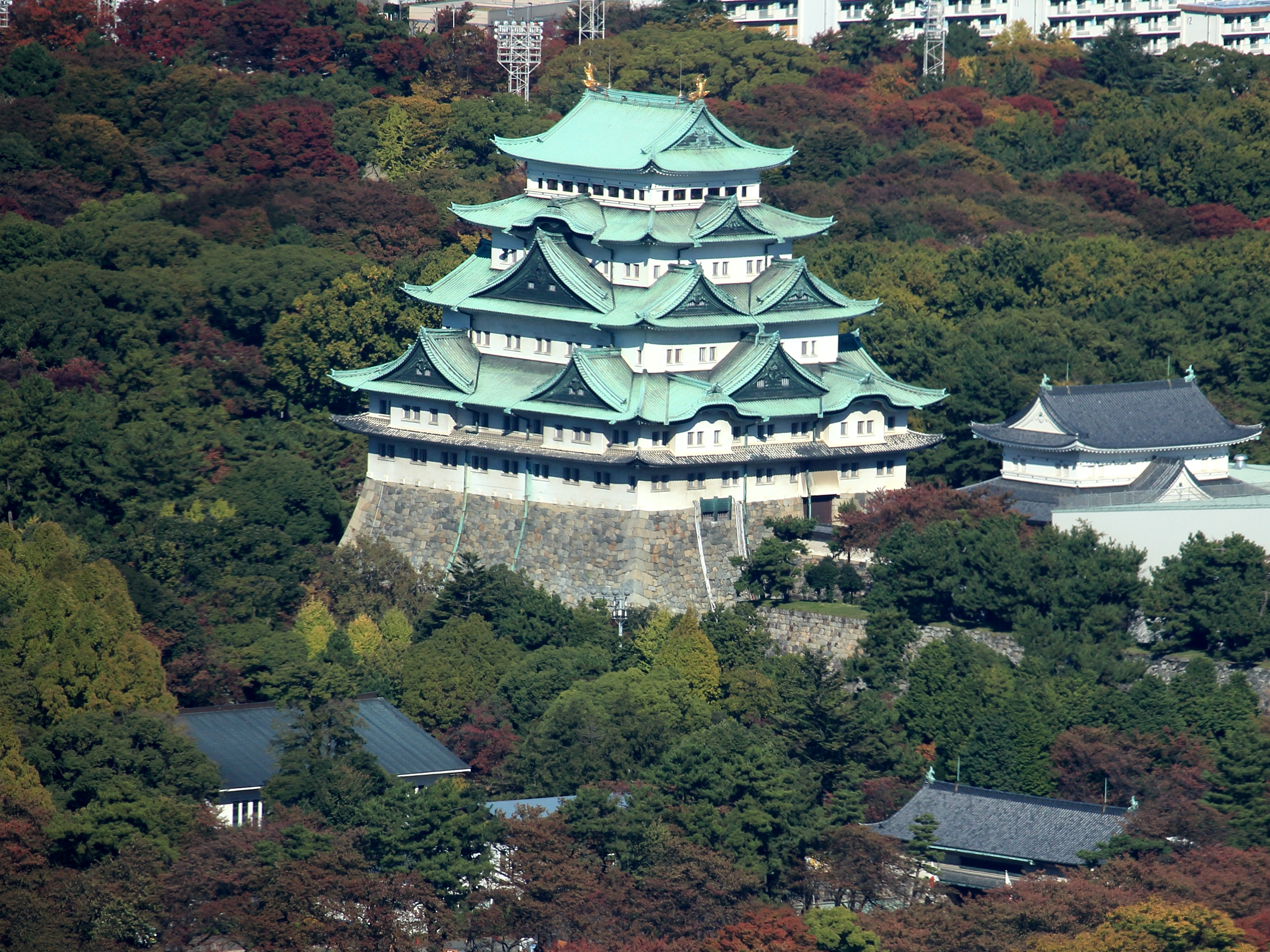 Nagoya Castle Keep Tower seen from Midland Square, in Nagoya, Aichi prefecture, Japan.